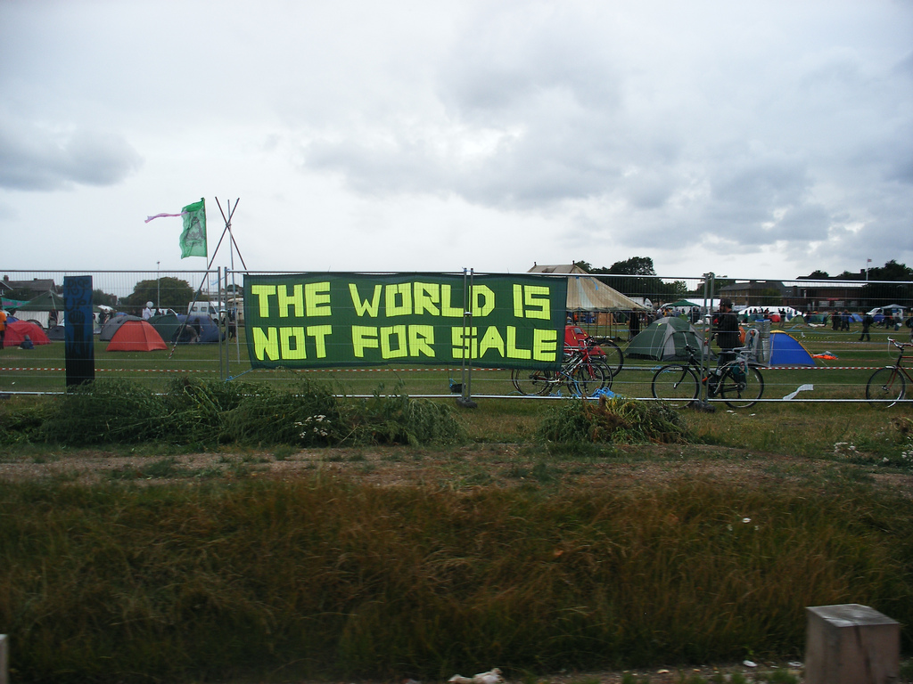 A banner on the fence erected around the Camp for Climate Action at Blackheath in August 2009.